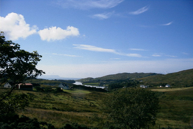 Towards Teelin. View looking south towards Teelin Bay, from the road west of Carrick.